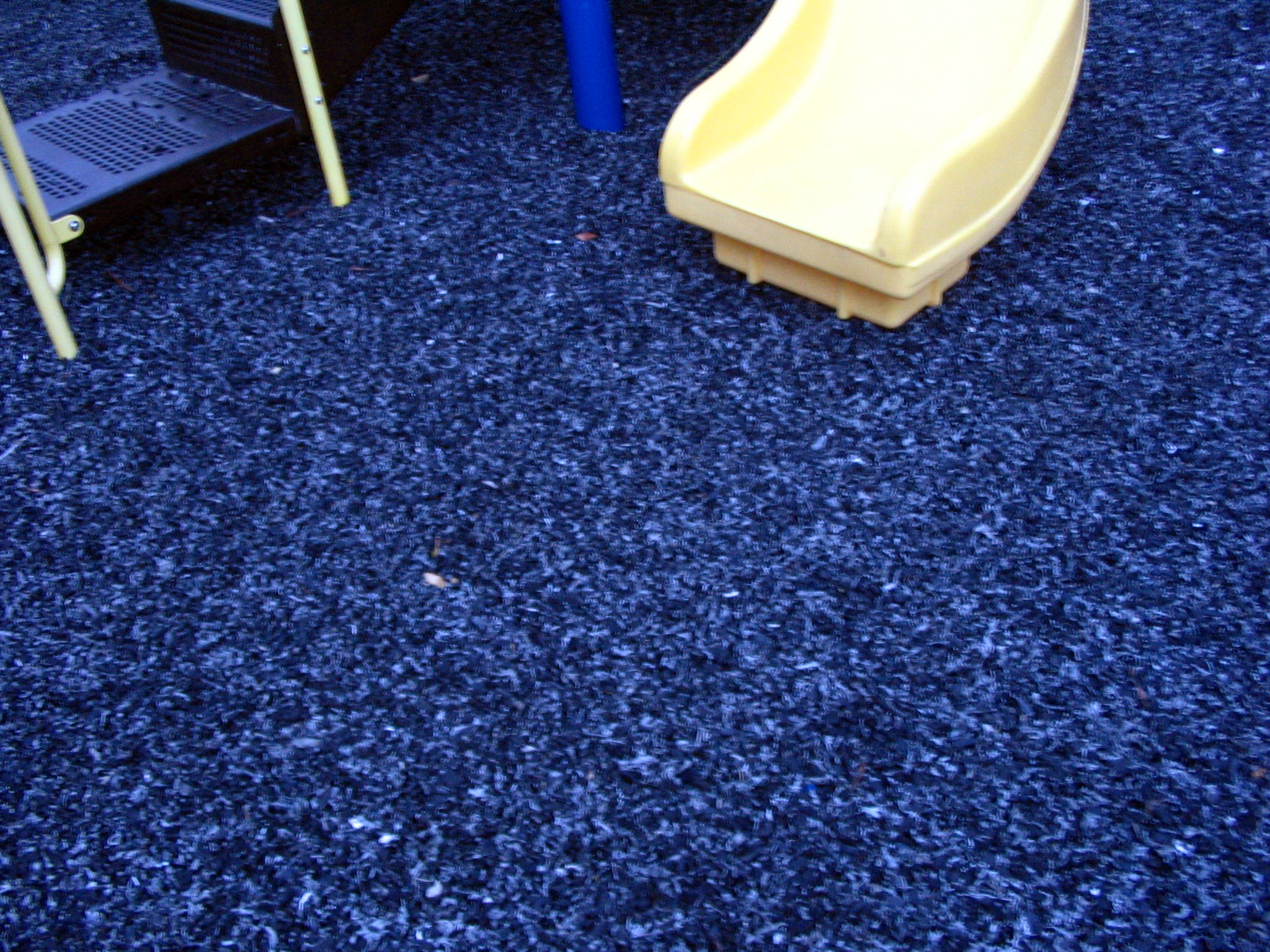 Rubber mulch at a playground in Port Alsworth, Alaska.